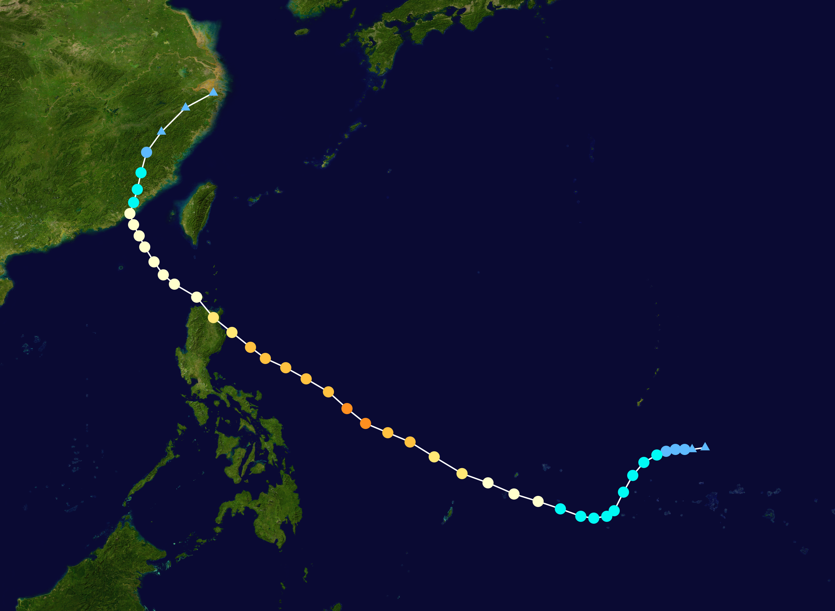 Typhoon Percy 1990 track. Uses the color scheme from the Saffir-Simpson Hurricane Scale.